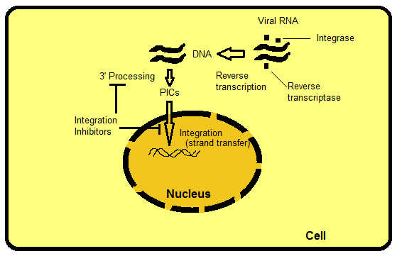 Viral integration into the host cell genome. Viral RNA is transcribed to DNA.